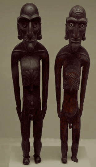 Right : Late 19th., H : 44 cm. On View in Margaret Mead Hall of Pacific Peoples. Moai, at the right in the AMNH Moai, early 18th Cent (?), in the AMNH Not same but nearly same objects in the AMNH